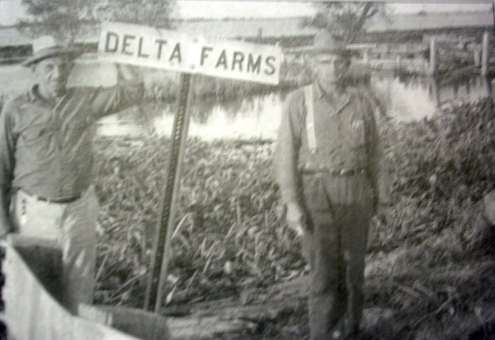 Two men standing near the sign to the entrance to Delta Farms.